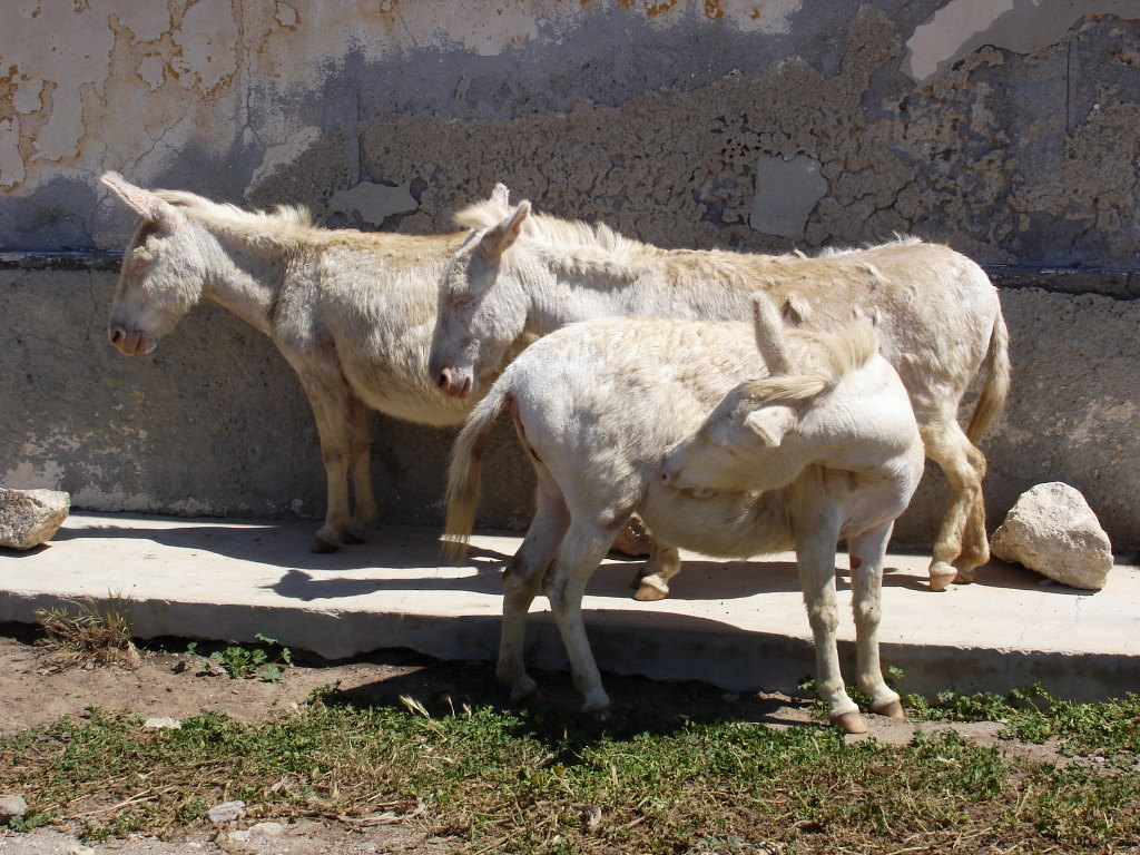 Picture taken 2007.05.11-11h52'50 See where this picture was taken. [?]